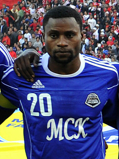 TP MAZEMBE